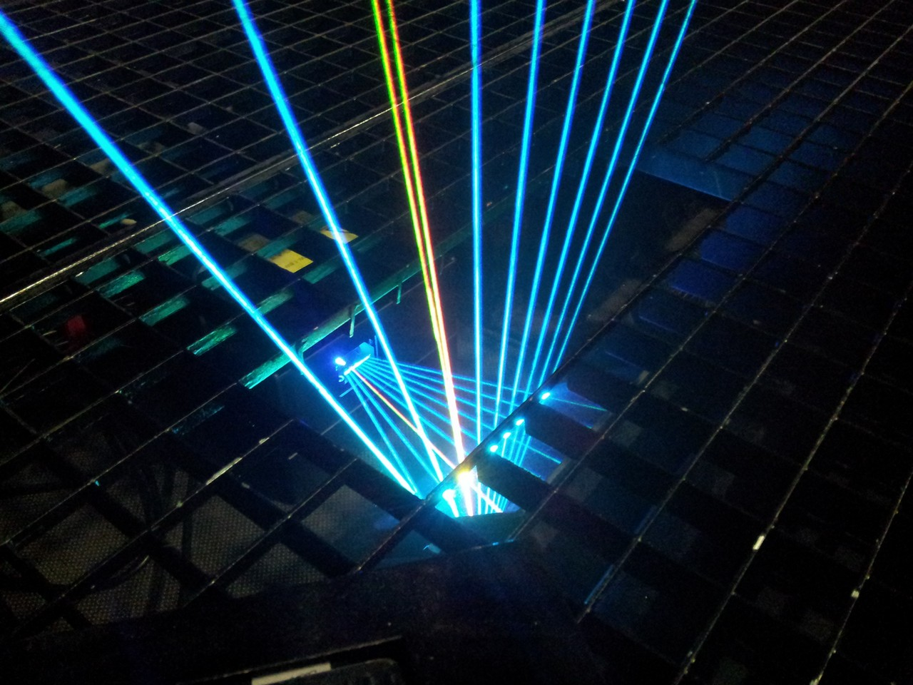 Genesis laser harp beam output from the stand